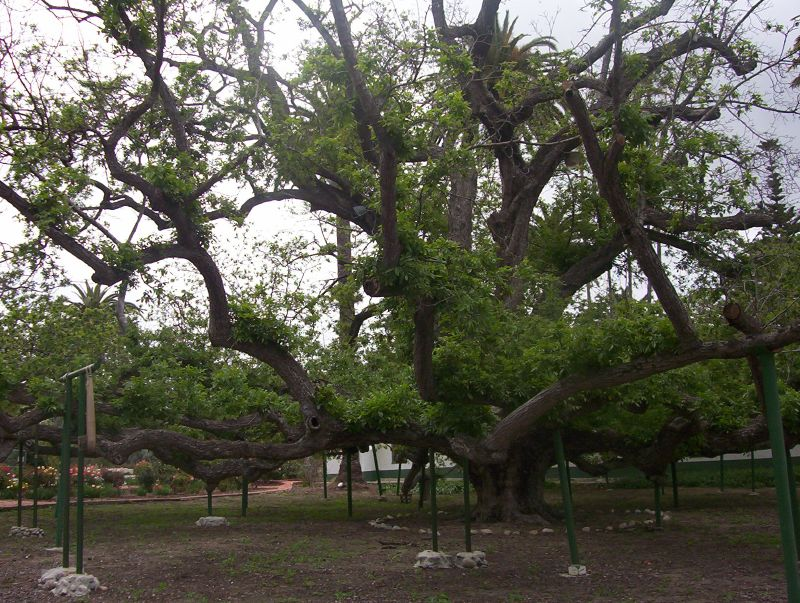 This California Black Walnut (Juglans californica) at Rancho Camulos is spread over a quarter acre of the grounds. it is very old; about 200 years.